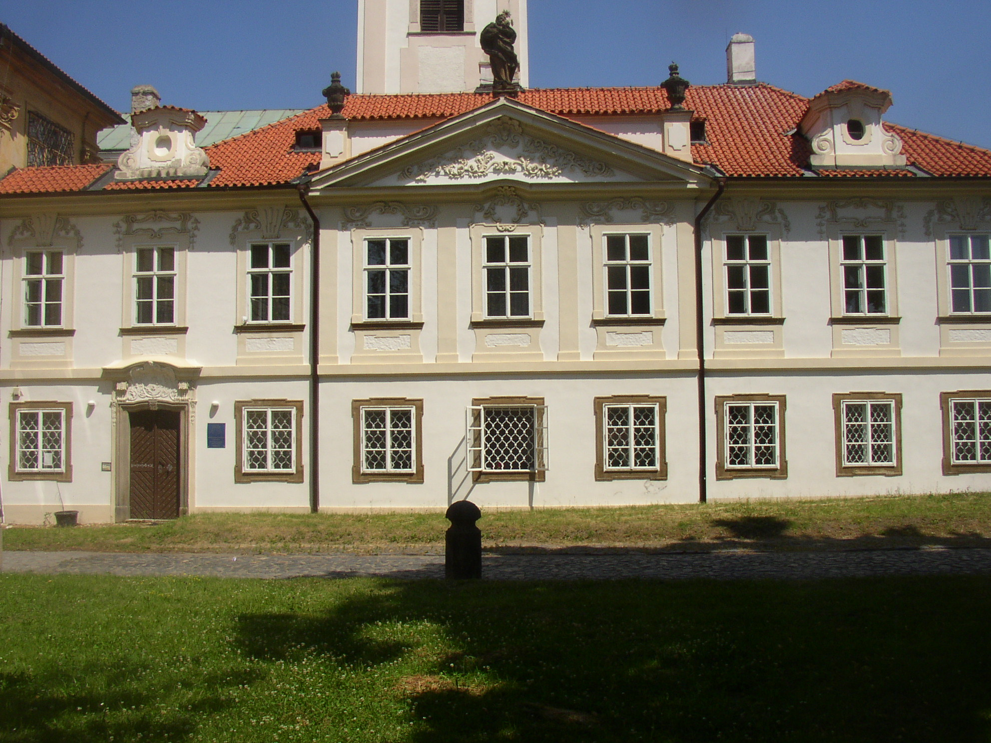 Provisory from late 1720s in first courtyard of female Premonstratensian convent in Doksany, Litoměřice District, Czech Republic. A frontal view from the south.